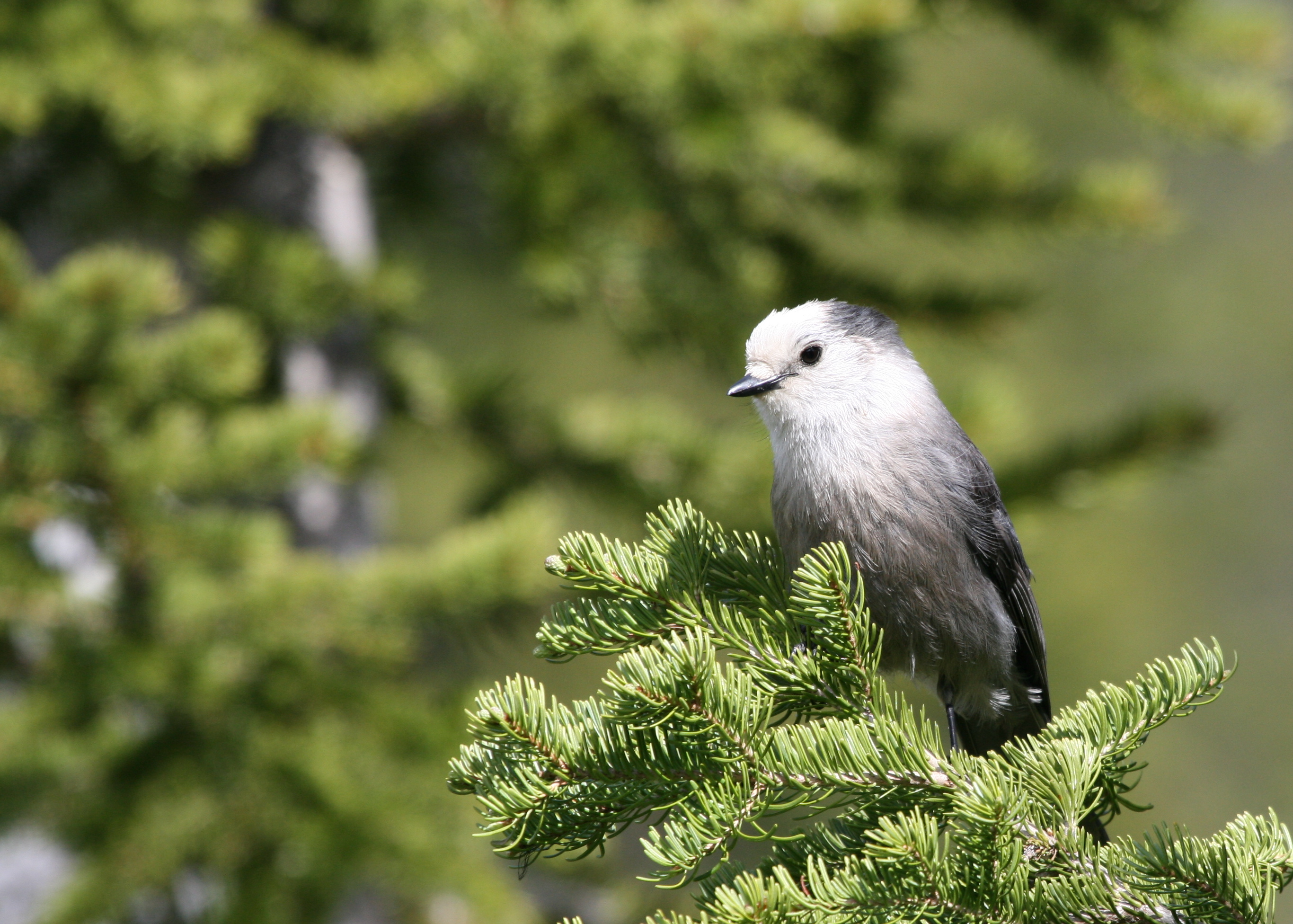 Perisoreus canadensis, perched on Abies lasiocarpa subsp. bifolia foliage. Waterton Lakes, Alberta, Canada.